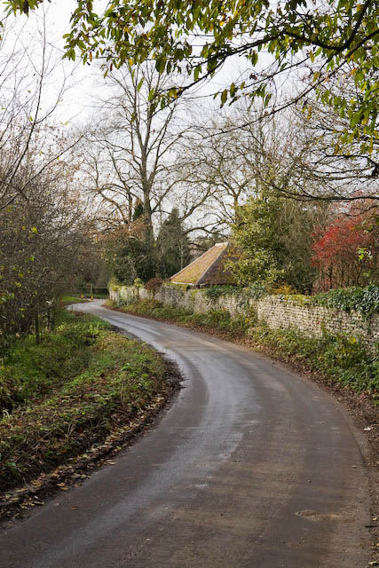 Station Road, West Meon, near to West Meon, Hampshire, Great Britain. Here it skirts the wall of West Meon House on its way to the A32.